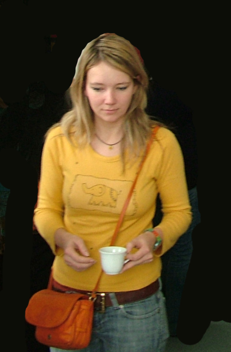 Zuzana Kapralikova Česky: Zuzana Kapráliková (* 5. september 1973) je slovenská herečka. Dcéra herca Dušana Kaprálika a sestra herca Martina Kaprálika. Začínala v detskej rozhlasovej dramatickej družine. Vyštudovala hudobno-dramatický odbor na bratislavskom Konzervatóriu a teraz tam učí hereckú tvorbu. Hrala na bratislavskej Novej scéne. V súčasnosti sa venuje dabingu a úprave dialógov, externe píše do časopisu Dámska jazda.